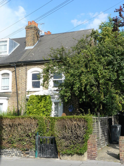 Samuel Coleridge-Taylor's House, Dagnall Park, Selhurst Samuel Coleridge-Taylor (1875-1912) lived in this house; the blue plaque is just about visible near the centre of picture.